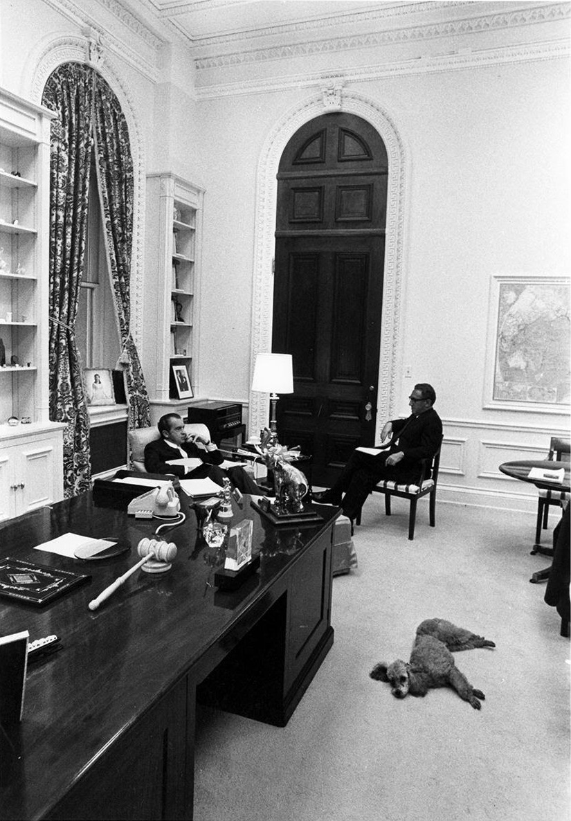 President Richard Nixon (left behind desk), his poodle Vicky, and Secretary of State Henry Kissinger in room 180 of the Old Executive Office Building in November 1971.